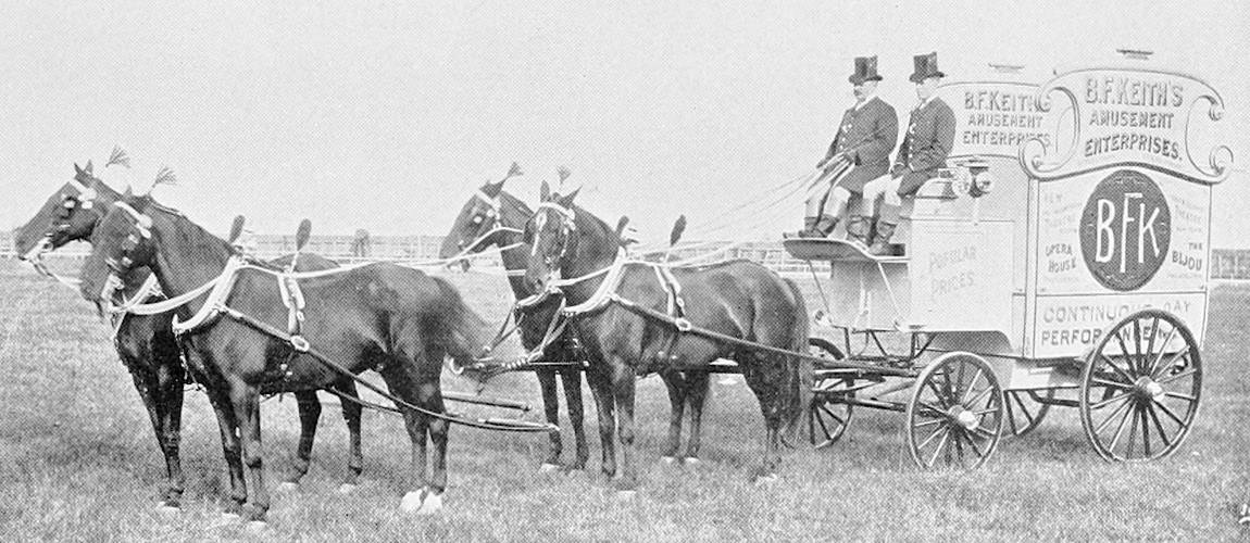 B.F. Keith's "electrical" advertising wagon